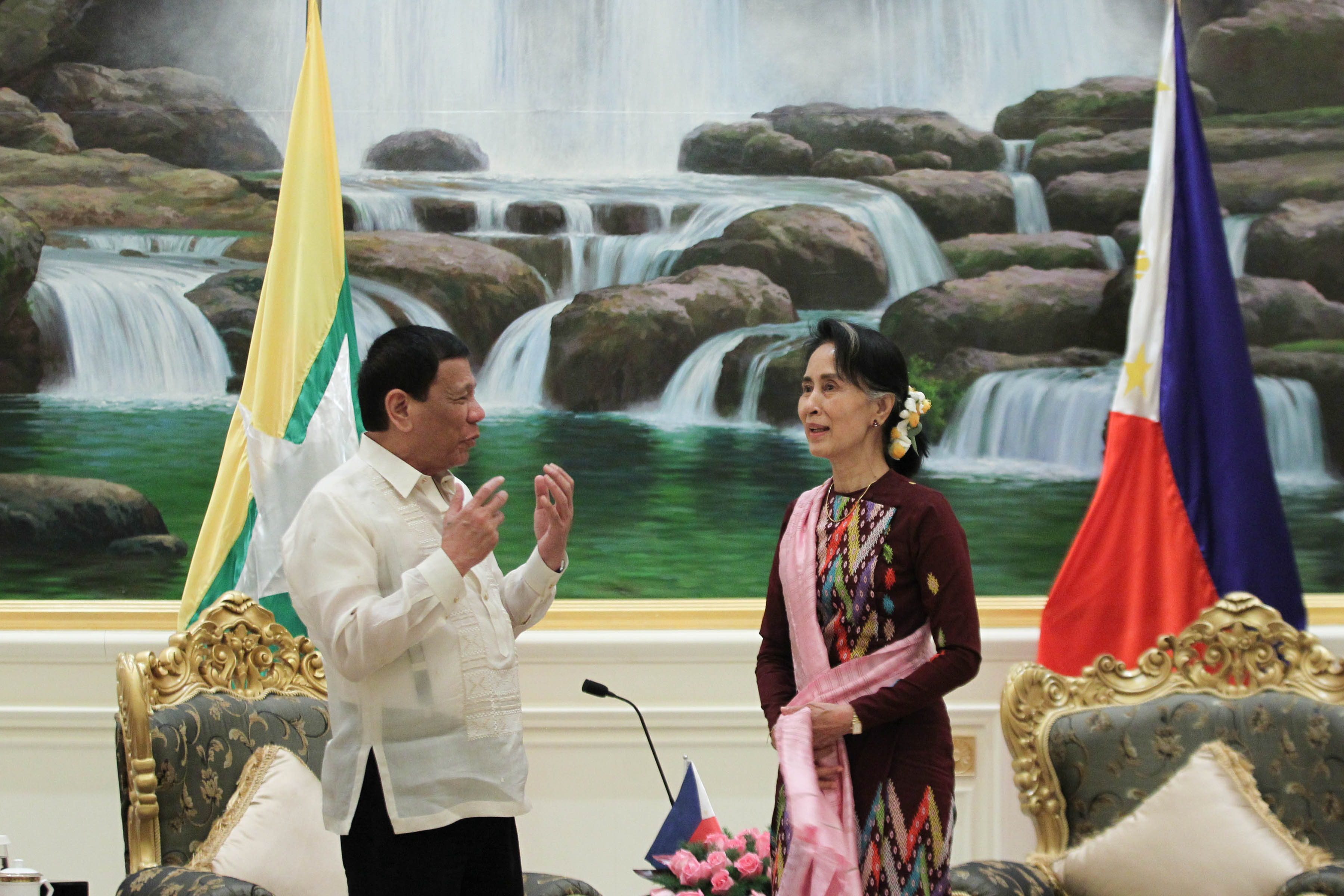 President Rodrigo R. Duterte talks with State Counsellor Aung San Suu Kyi during the latter's state visit to Myanmar on March 20, 2017.